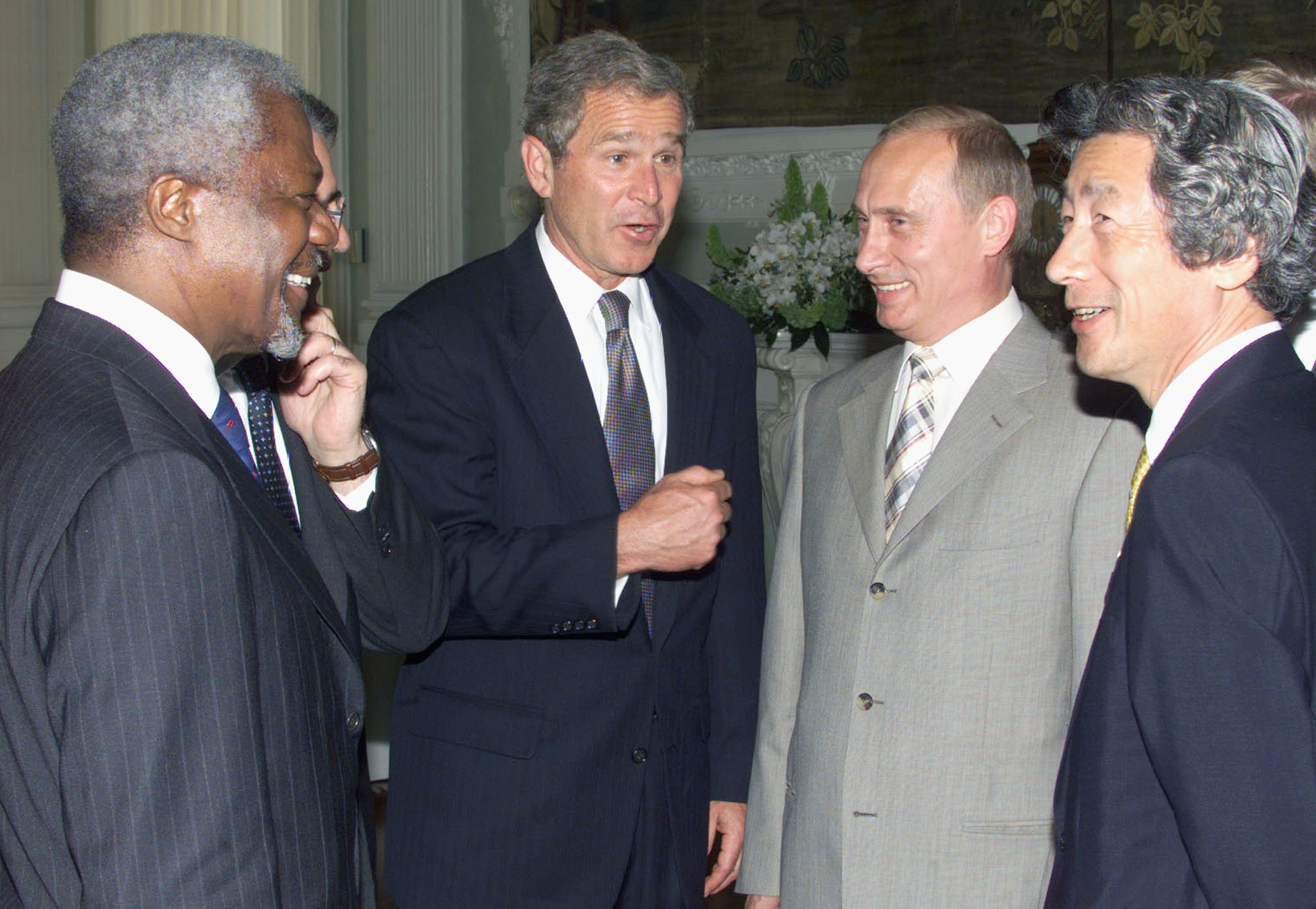 GENOA. President Putin with UN Secretary General Kofi Annan, US President George Bush and Japanese Prime Minister Junichiro Koizumi (left to right) during the presentation ceremony for the Global Fund to Fight AIDS, Tuberculosis and Malaria.